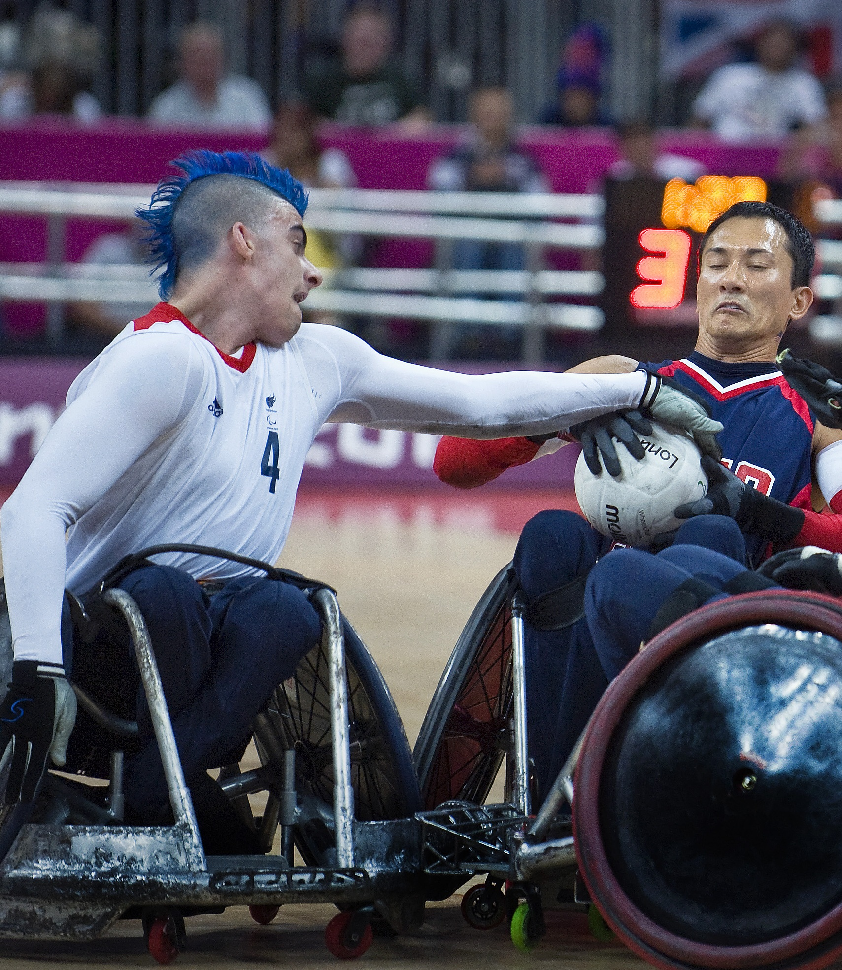 David Anthony of Great Britain and William Groulx, U.S. wheelchair rugby captain, fight over the ball during their qualifying match of the 2012 Paralympic Games in London, Sept. 5, 2012.